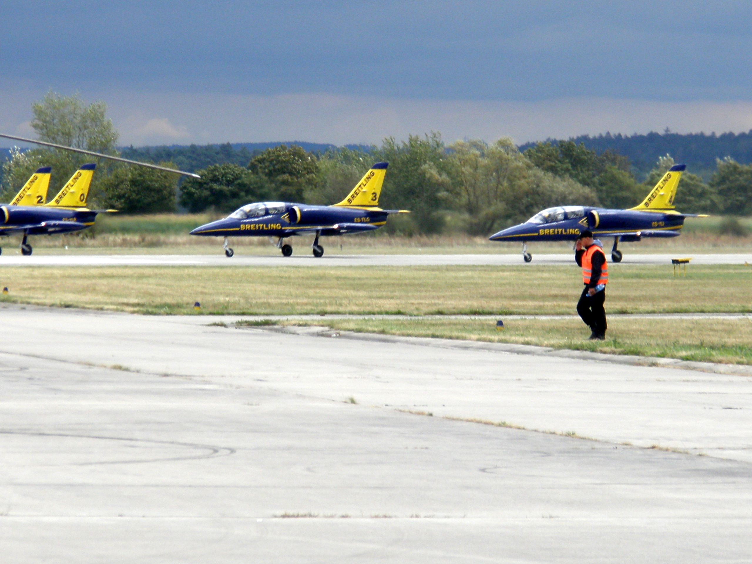 Breitling Jet Team on runway in Hradec Králové Airport during CIAF 2009